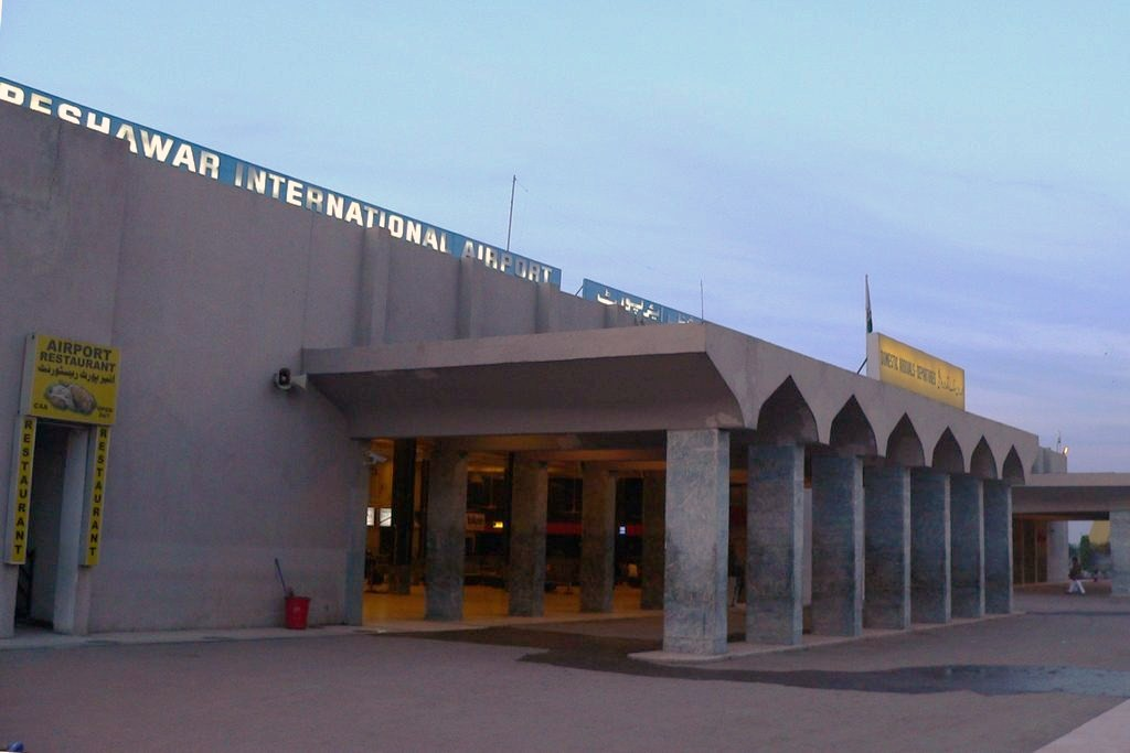 The terminal, Peshawar International Airport. Photo by Waqas Usman. More images at and